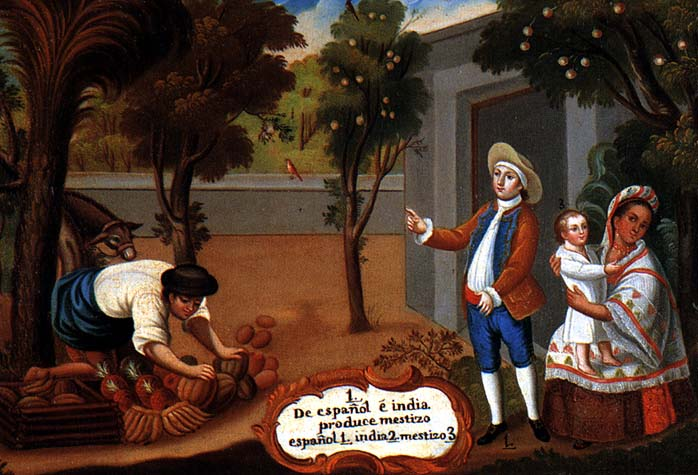 Painting of mestizos at the end of the 18th century or beginning of 19th century. Unknown author, public domain. The legend reads "1. De español é india produce mestizo / español 1. india 2. mestizo 3." — "1. A male Spaniard and a female Amerindian produces a Mestizo offspring / Spaniard 1. Amerindian 2. Mestizo 3."